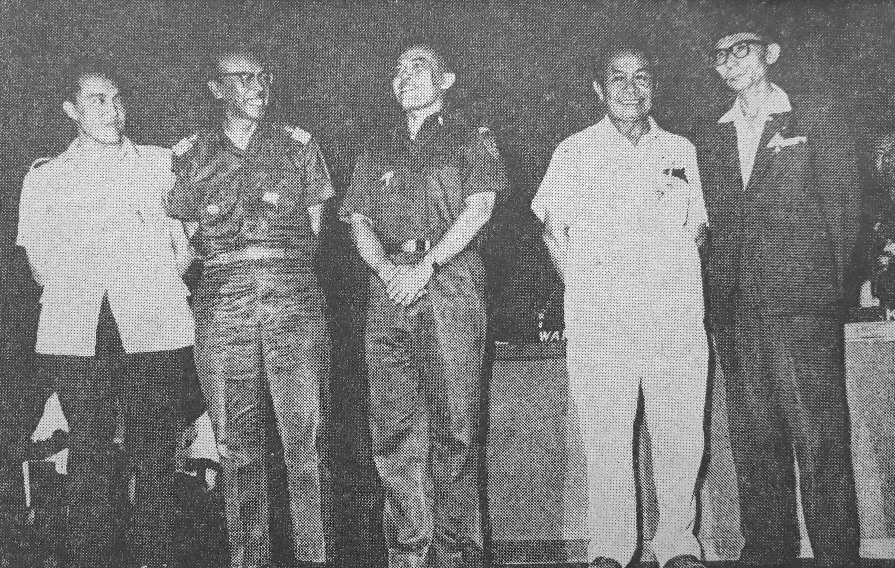 The leadership of the Indonesian Provisional People's Consultative Assembly at the time of the 1967 Special Session. From left to right: H.M Subchan Z.E, Maj. Gen. Mashudi, Gen. Dr. A.H. Nasution, M. Siregar and Osa Maliki